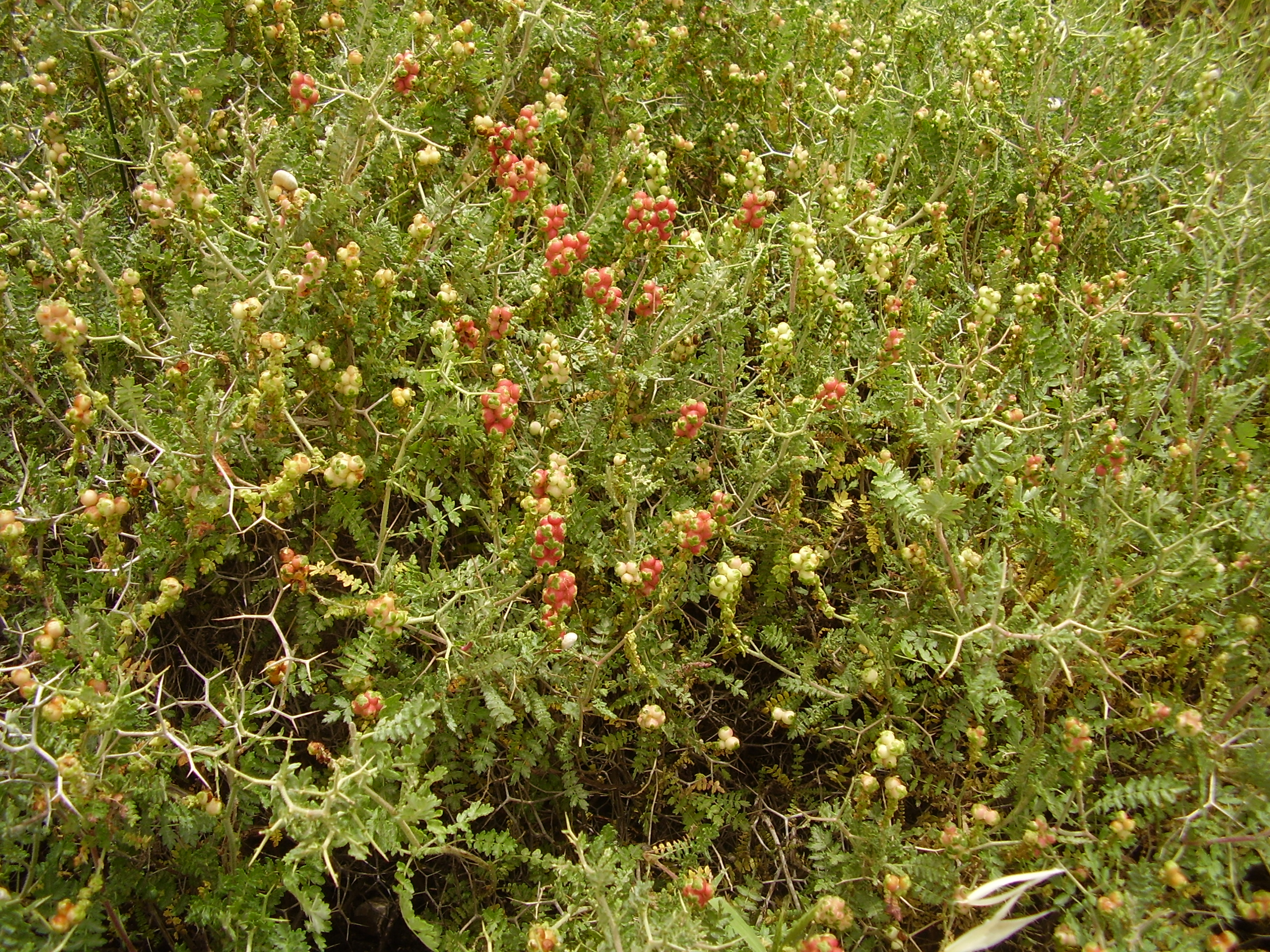 Photographed on 07 April 2007 in the Nahal Taninim nature reserve.